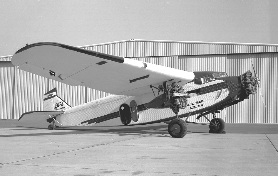 Just out of the paint shop at San Jose, California, in January 1970. Owner Irv Perch painted it white with dark red and gold trim.